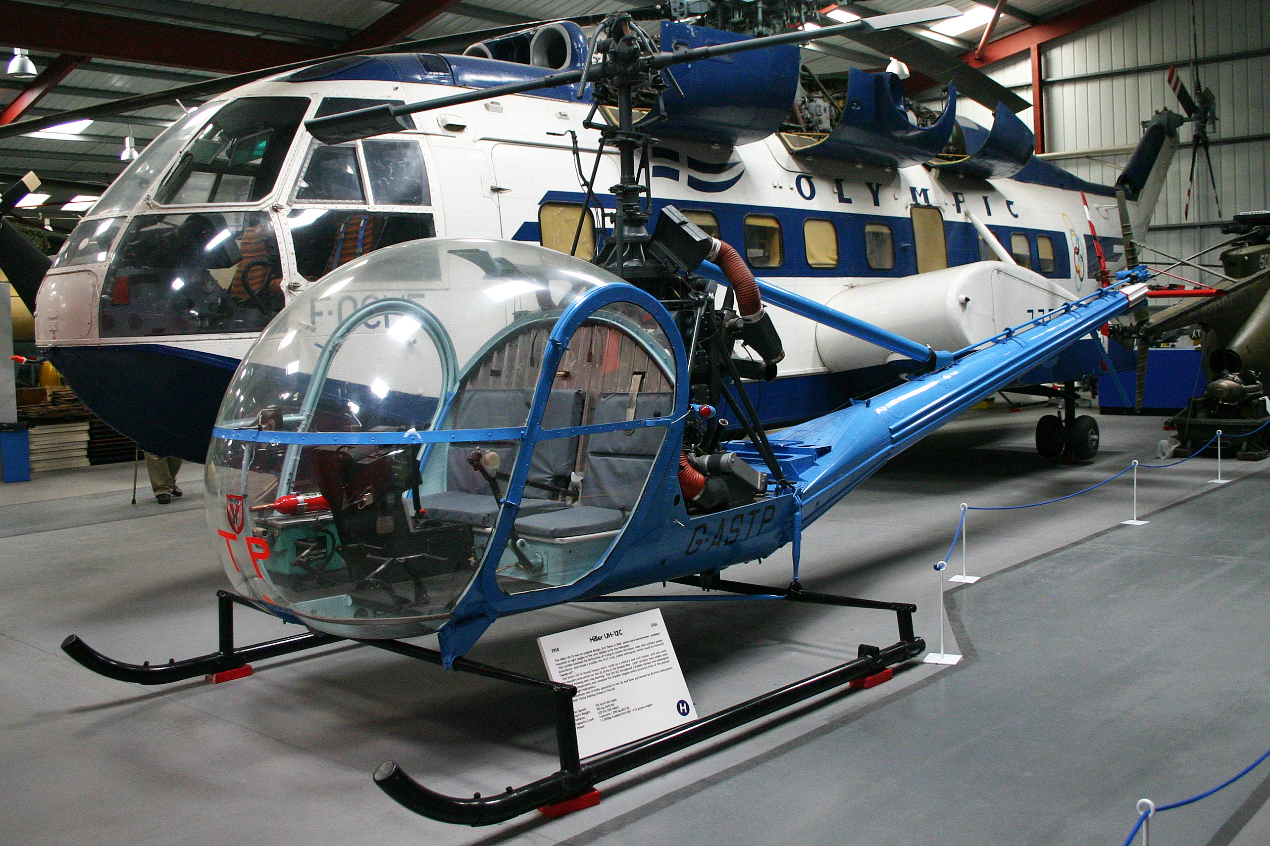 Also known as a UH-12C. msn 1045. International Helicopter Museum. Weston-Super-Mare. 15-6-2011